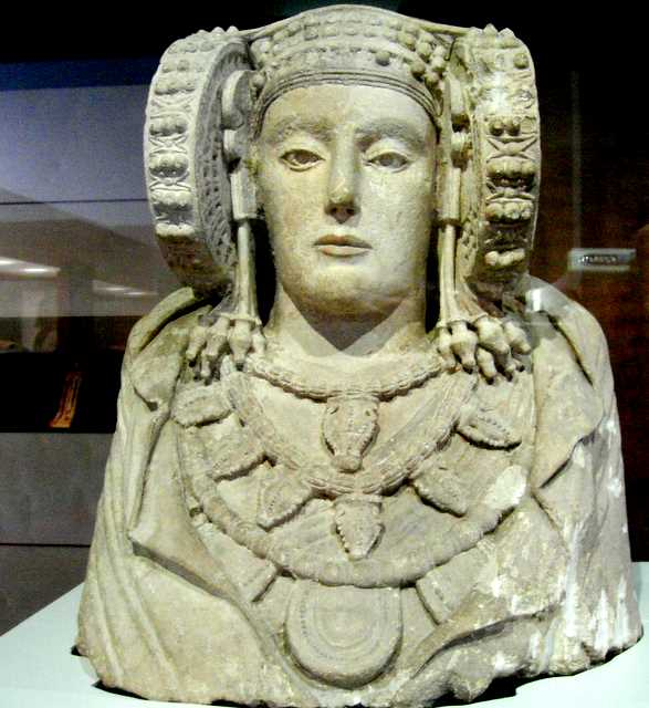 Dama de Elche. The Dama de Elche in the National Archeological Museum in Madrid, Spain, Madrid.